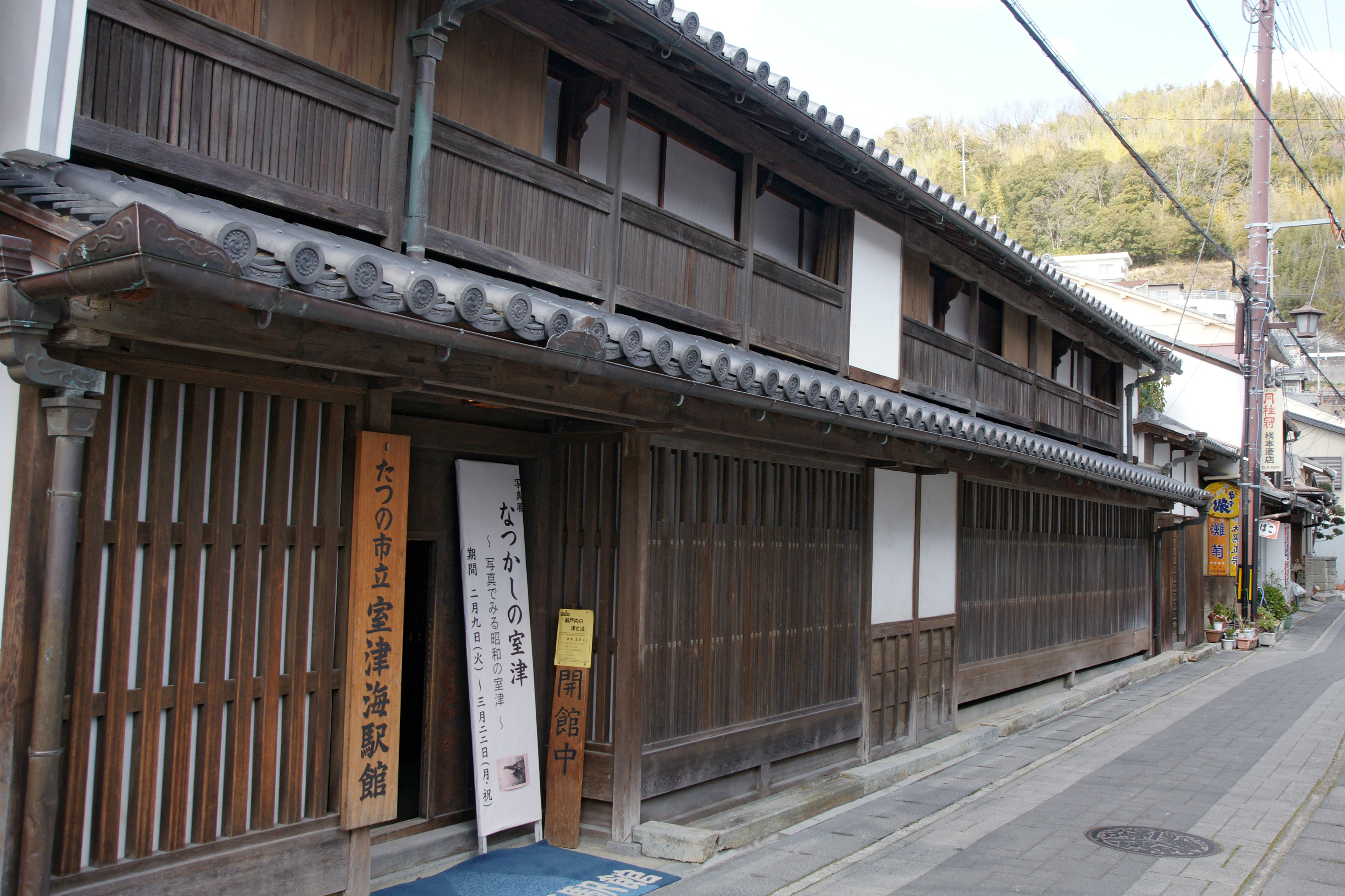 at Tatsuno Municipal Murotsu Museum of Sea Port in Murotsu, Tatsuno, Hyogo prefecture, Japan